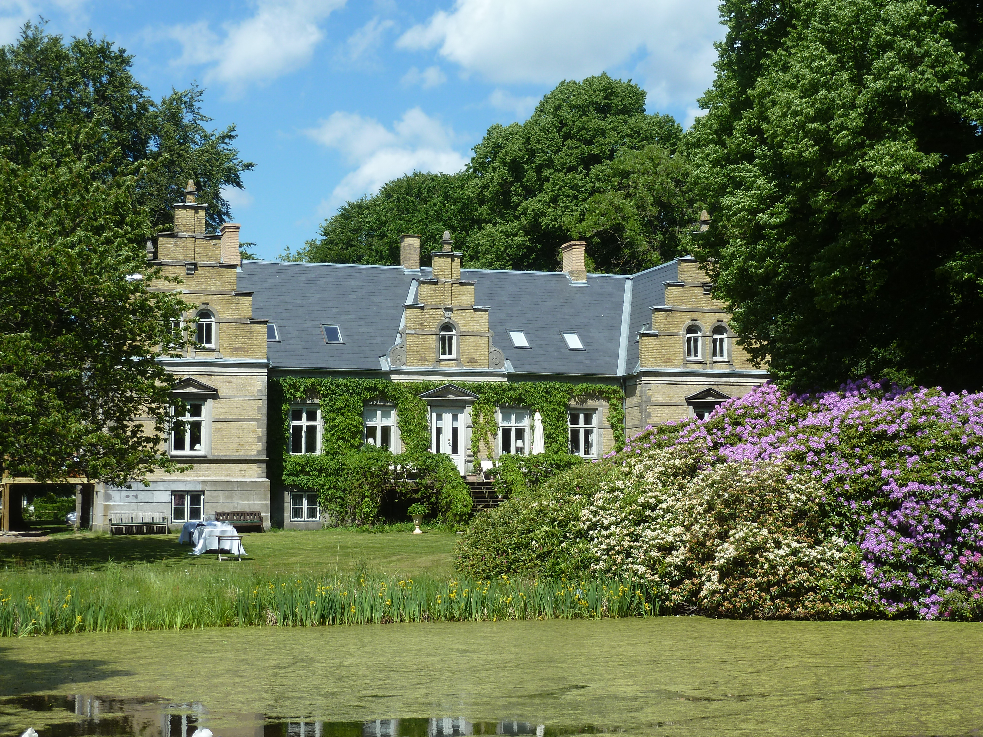 Nivaagaard's old main Building from 1881 in Nivå, Denmark Nivaagaard Museum Native nameNivaagaards MalerisamlingLocationNivå, DenmarkCoordinates55° 55′ 36.84″ N, 12° 30′ 38.52″ E Established1908Web page control : Q10601378 VIAF: 144272183 ISNI: 0000 0001 2331 6970 LCCN: n84090937 WorldCat institution QS:P195,Q10601378